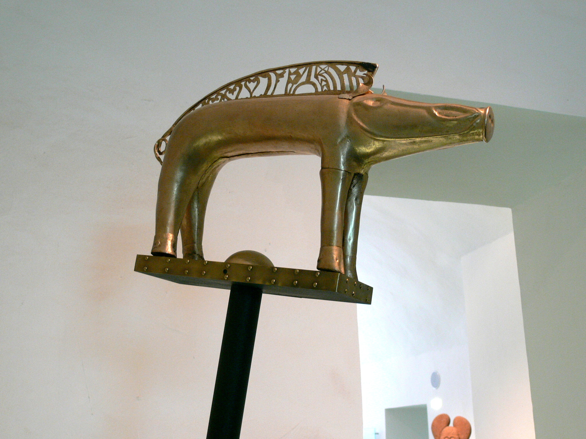 Celtic museum in Hallein ( Salzburg ). Replica of an celtic war standard from Soulac-sur-Mer ( 1st century BC ).